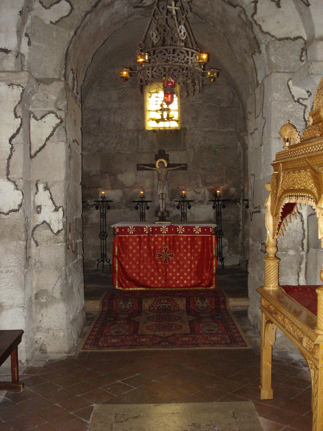 Crypta Ferrata